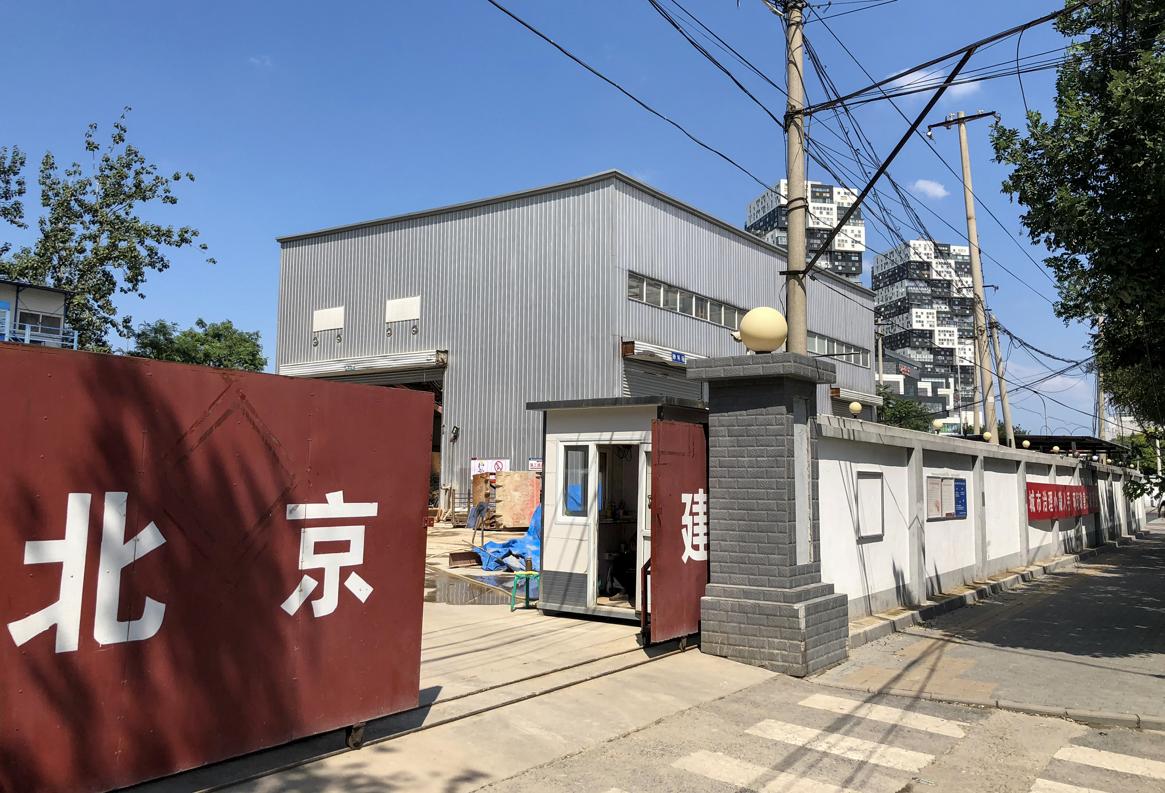 Another station to serve ABP Beijing... this time 8A.